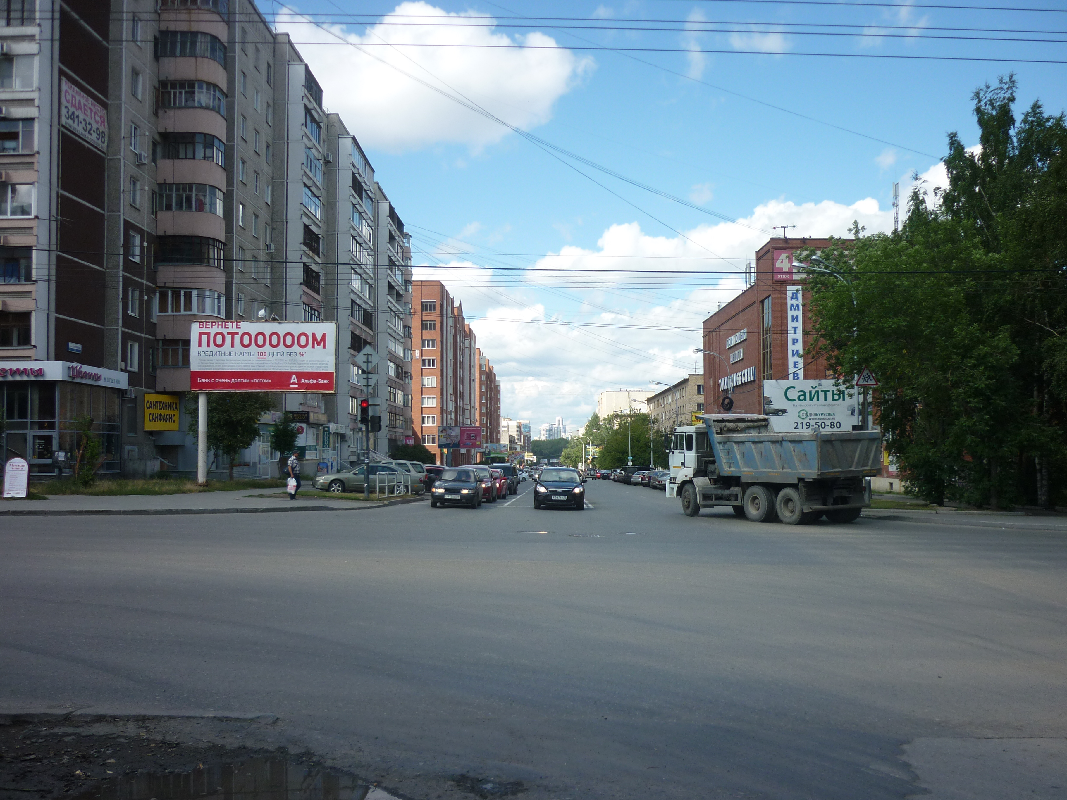 56.8076596, 60.6014236 Yekaterinburg str Surikova - Schorsa intersection 24 jul 2012